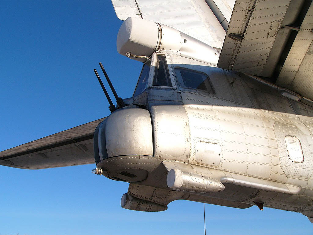 Airshow MAKS-2007. Tu-95MS